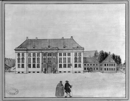 Charlottenborg in Copenhagen, Denmark